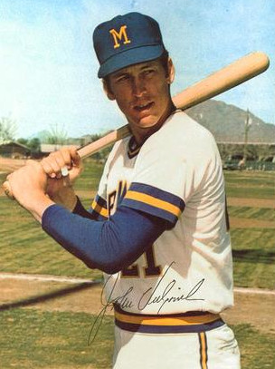 Professional baseball player John Vukovich